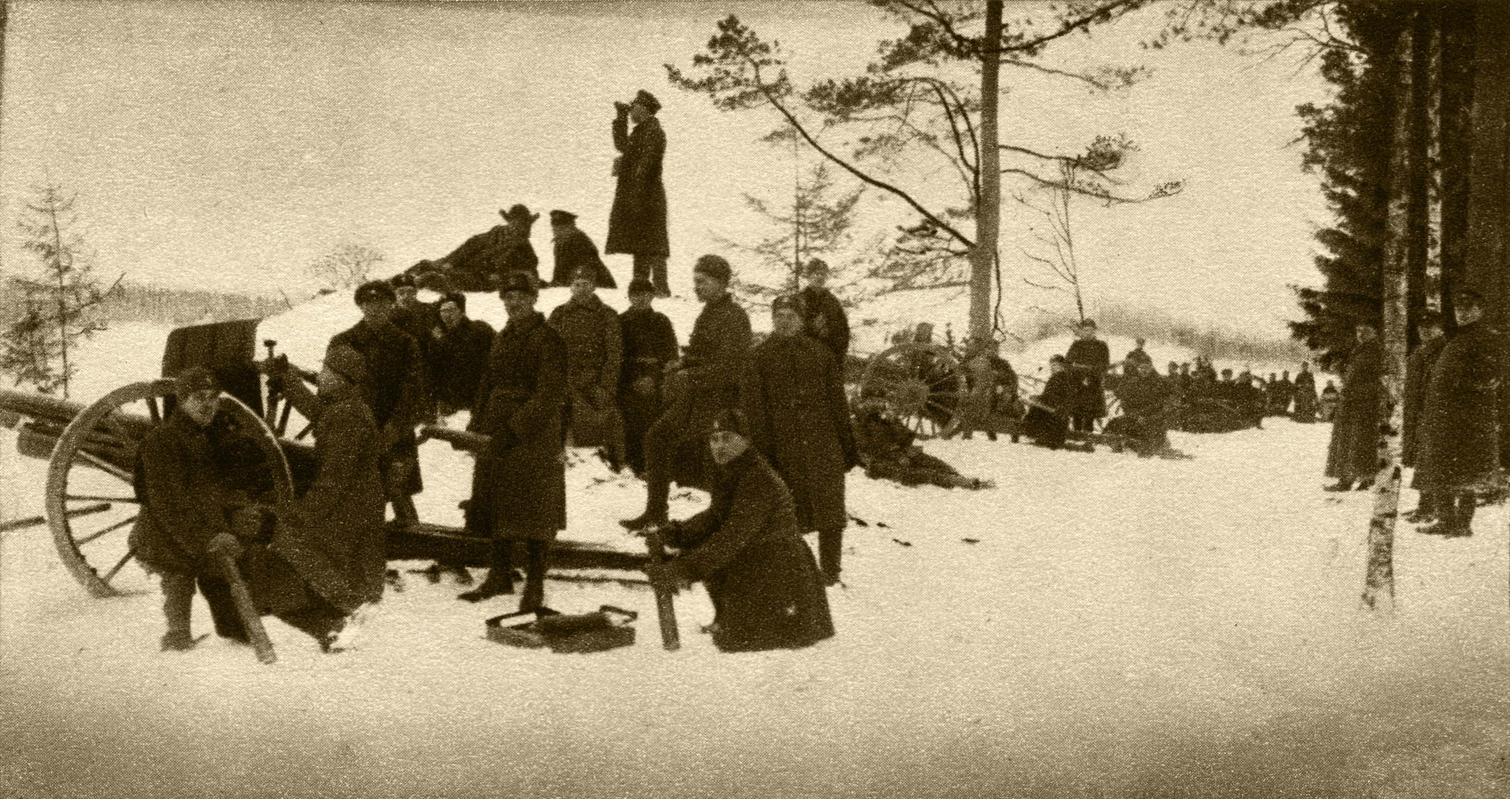 Field battery No 2 in position near Narva in November and December 1919. Battery commander Captain Jaan Tõnisson observing with binoculars.